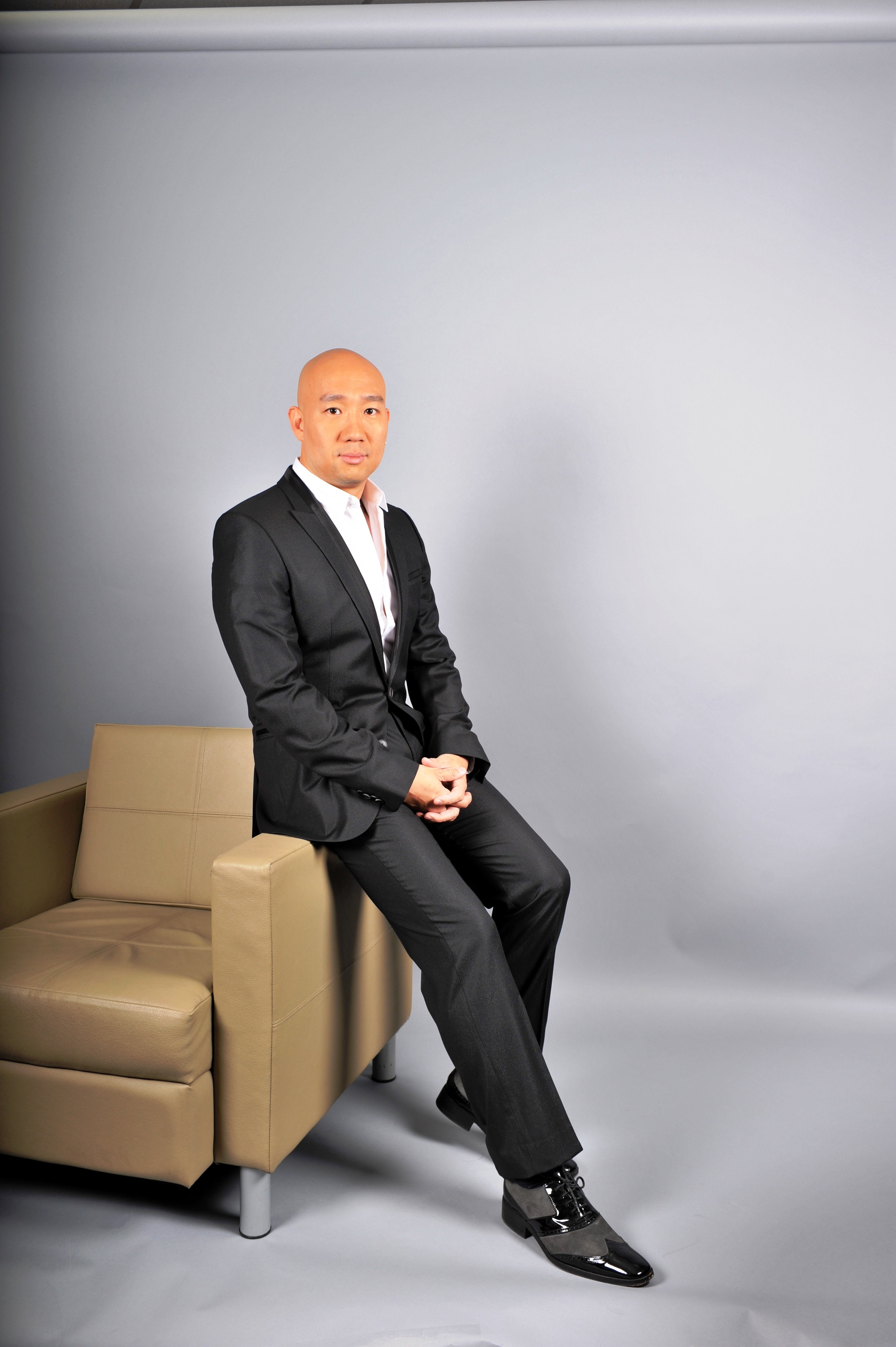 Dan Liu 2013 Profile Photo